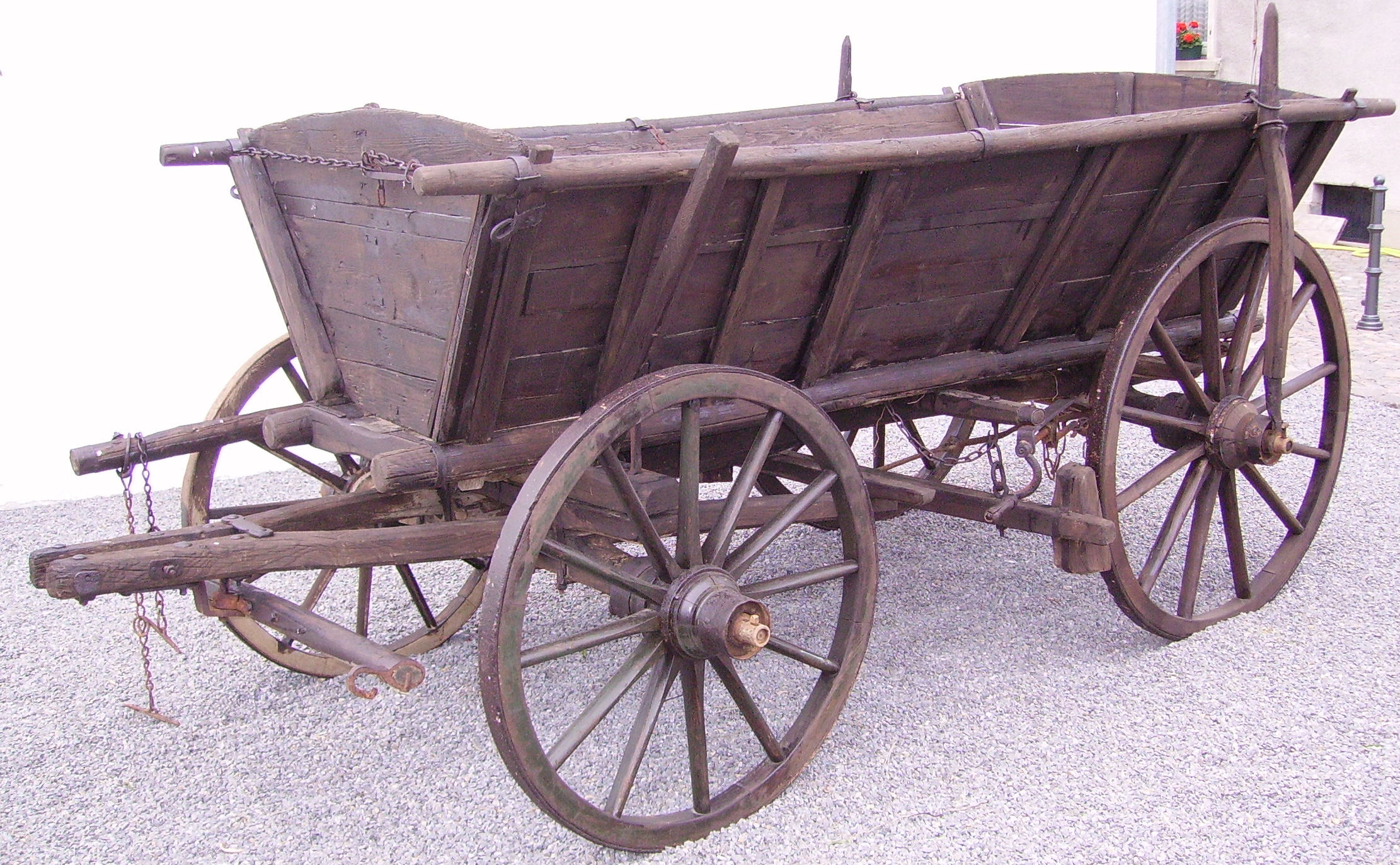 view of Limburgerhof, Germany